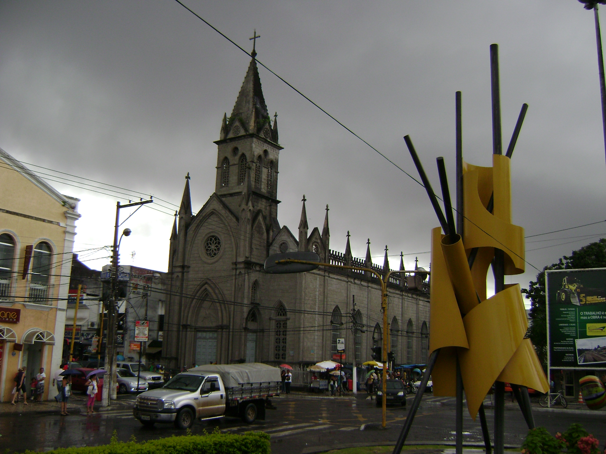 Church in Feira de Santana.